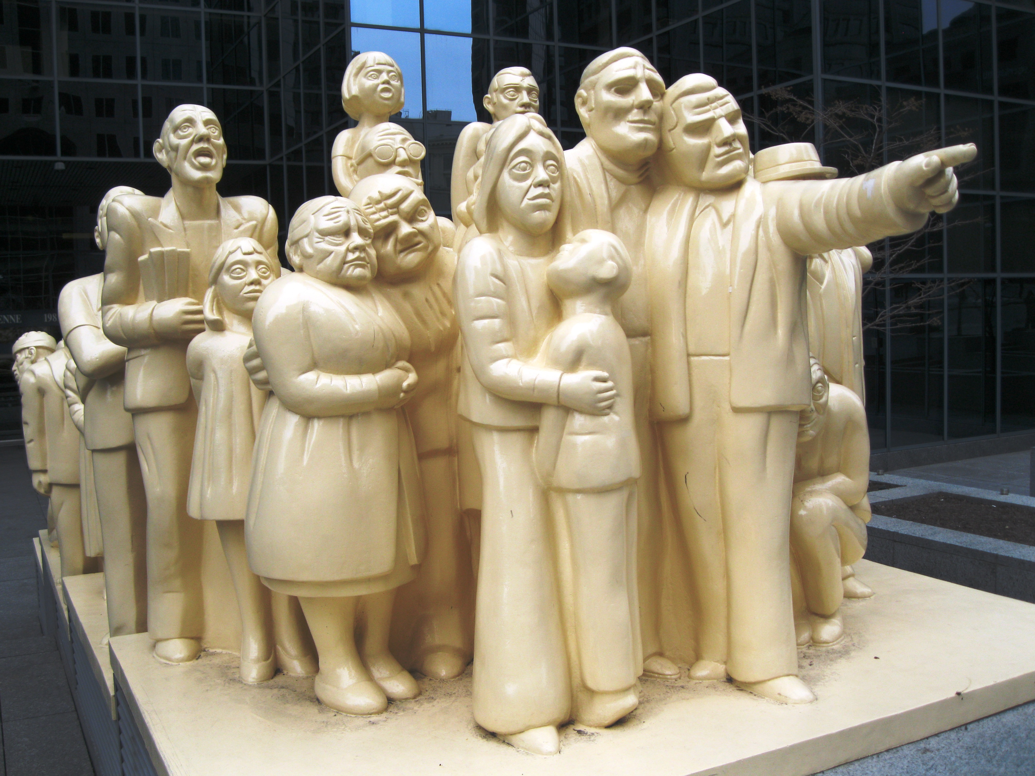 The Illuminated Crowd